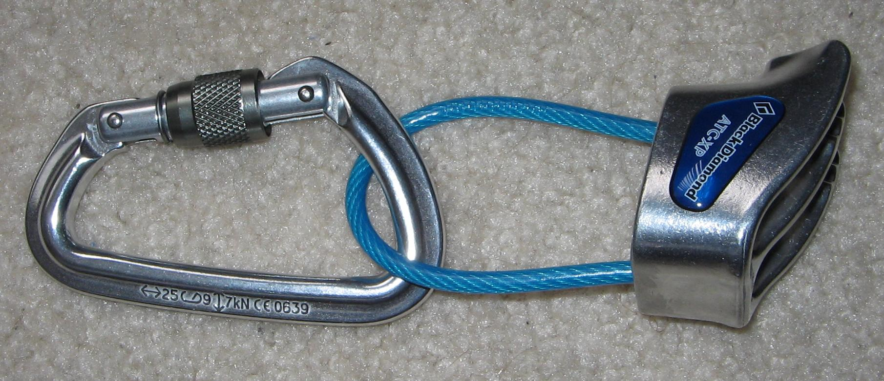 ATC-XP on locking carabiner.